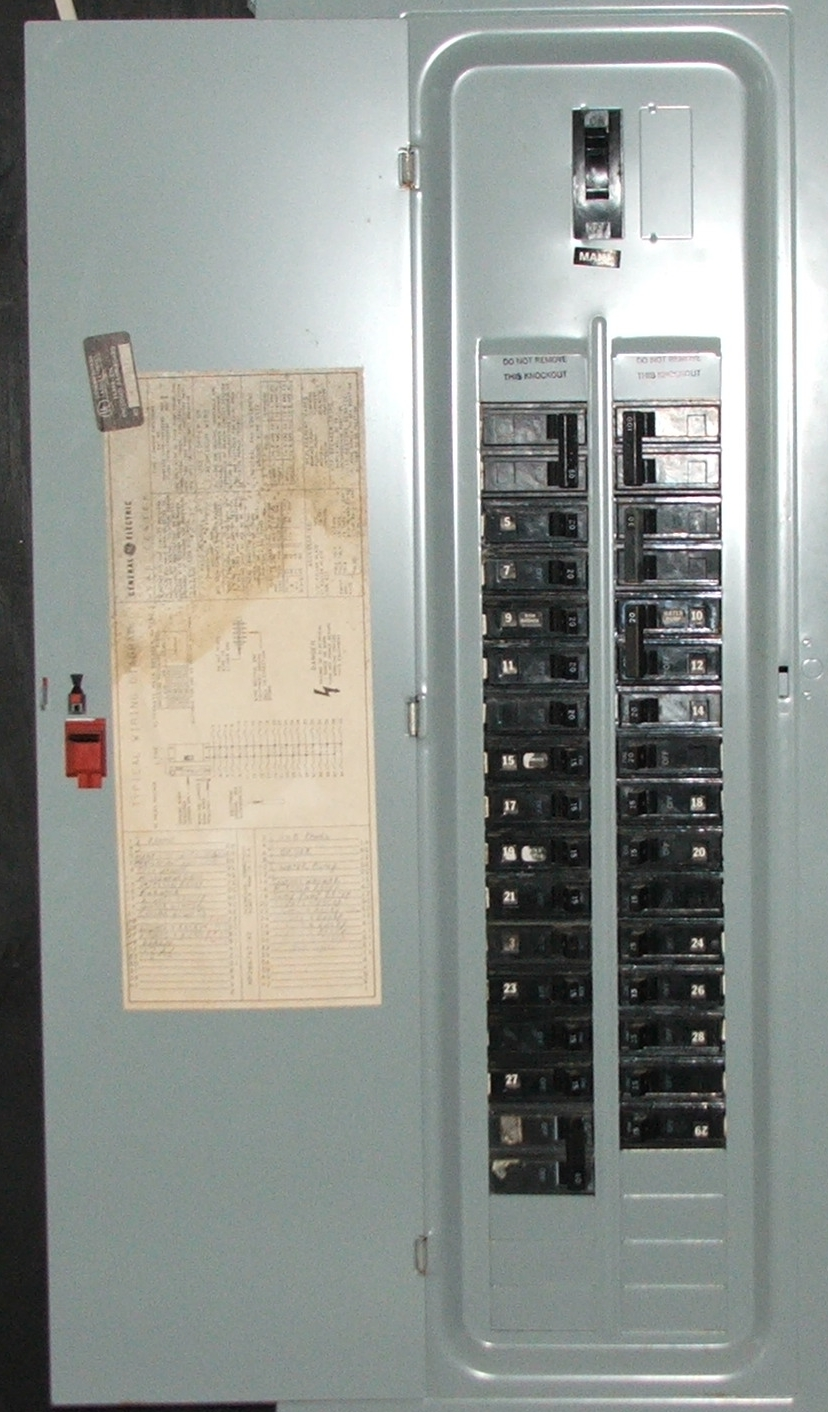 This is actually the work of an WP user who refuses to get a username but requested that I upload it here.